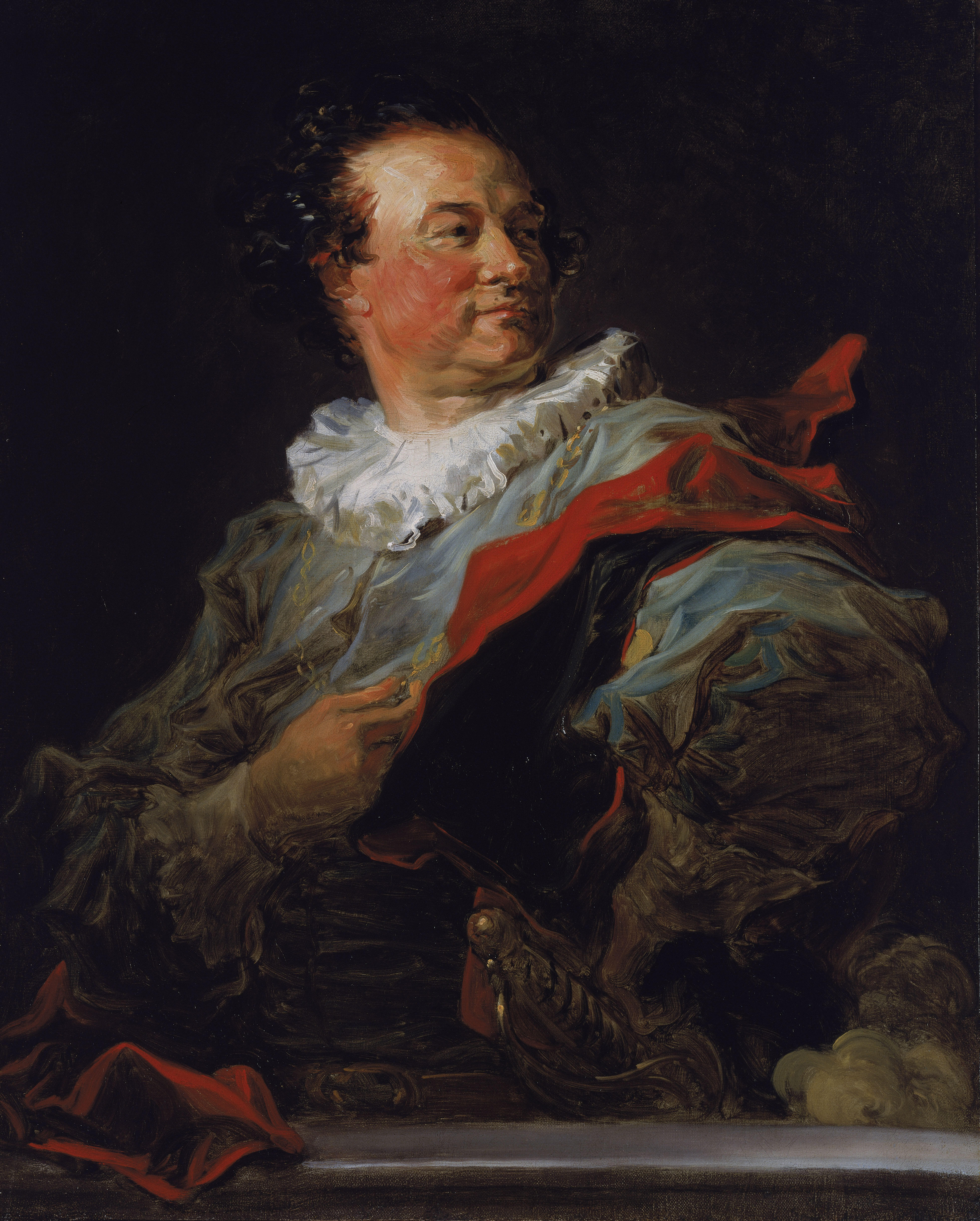 Portrait of François-Henri d'Harcourt (1726-1802) by Jean Honoré Fragonard (1732-1806), oil on canvas